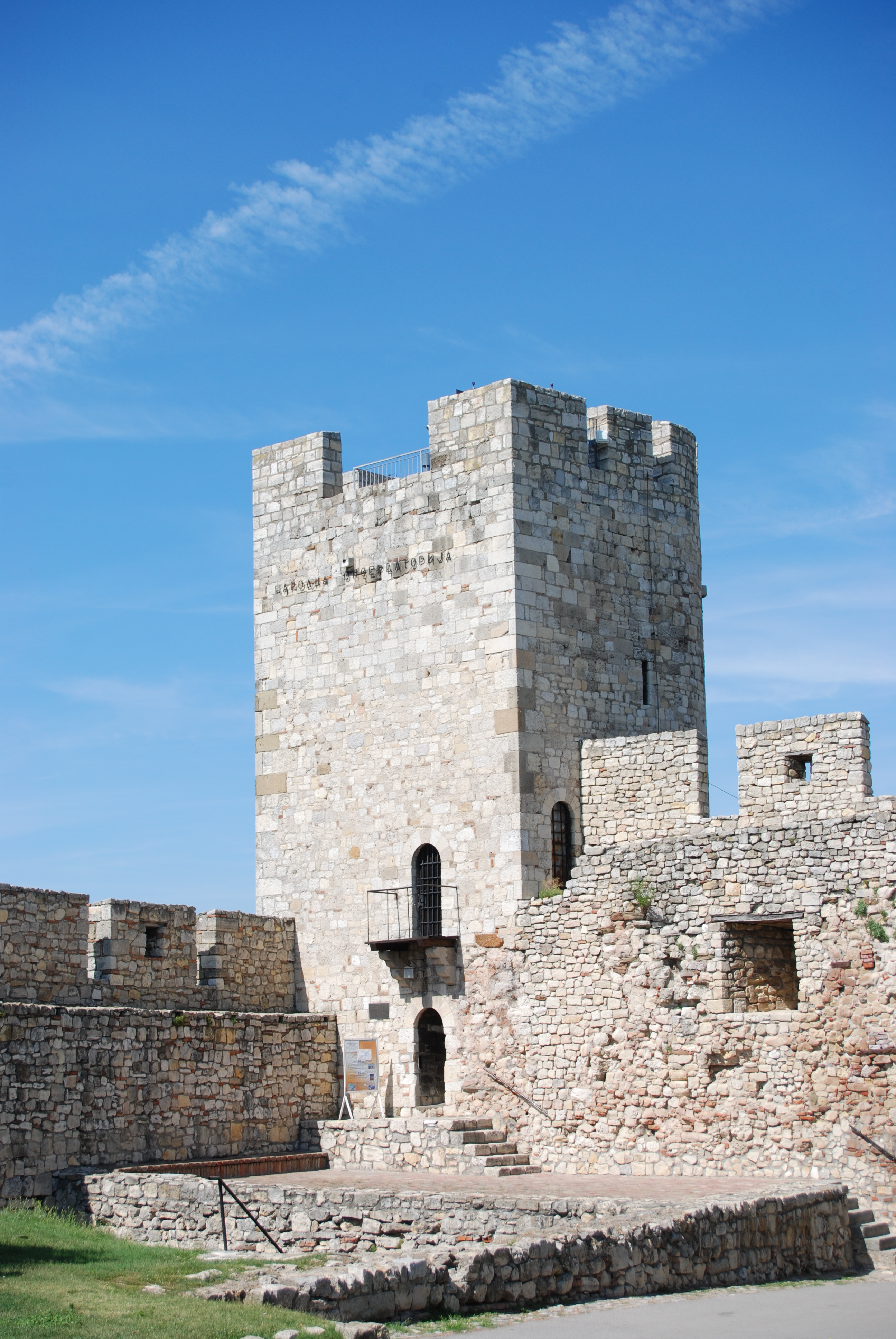 Kalemegdan is a fortress and park in an urban area neighborhood of Belgrade, the capital of Serbia. It is located in Belgrade's municipality of Stari Grad.